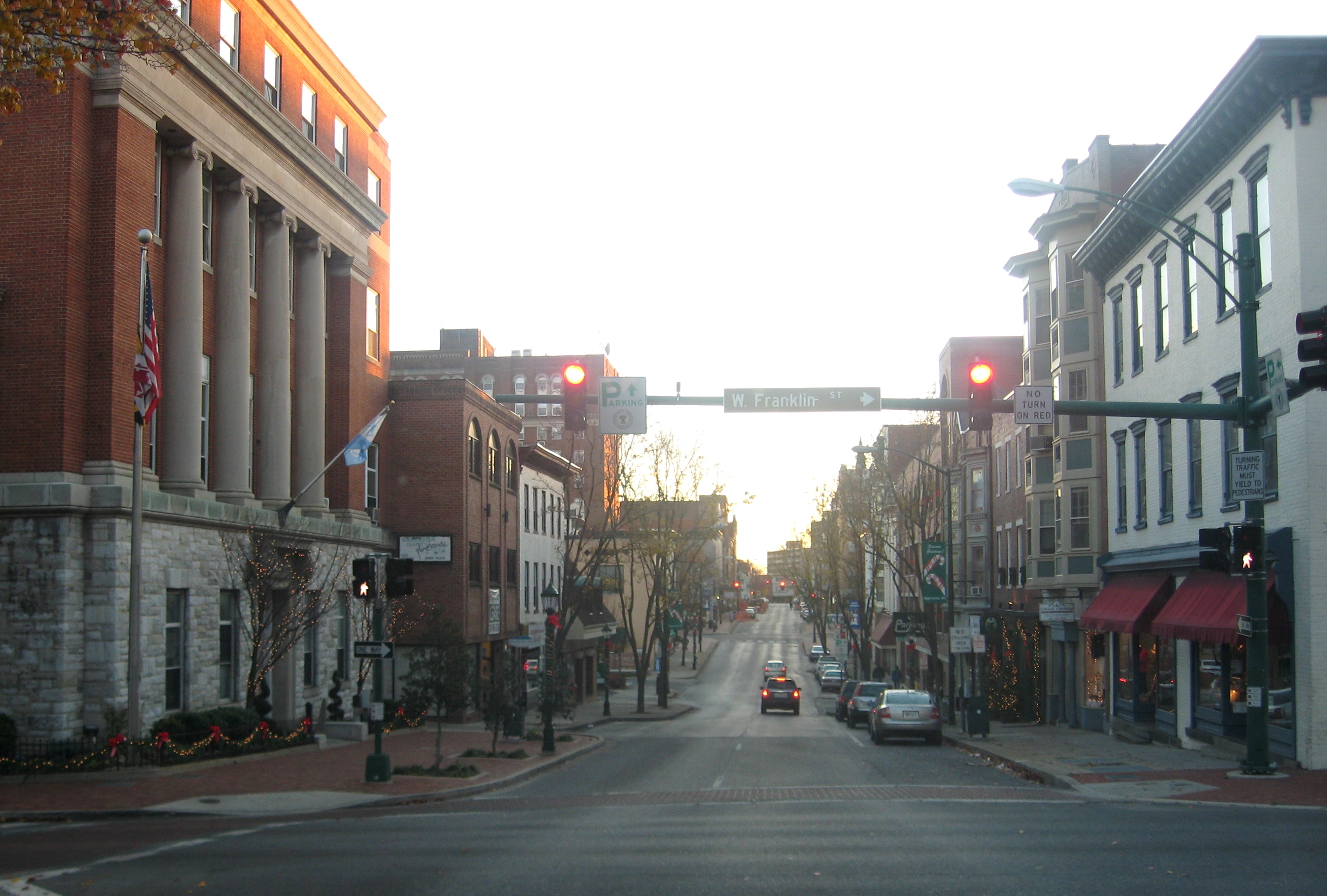 Looking south on Potomac Street in downtown Hagerstown, Maryland, United States.